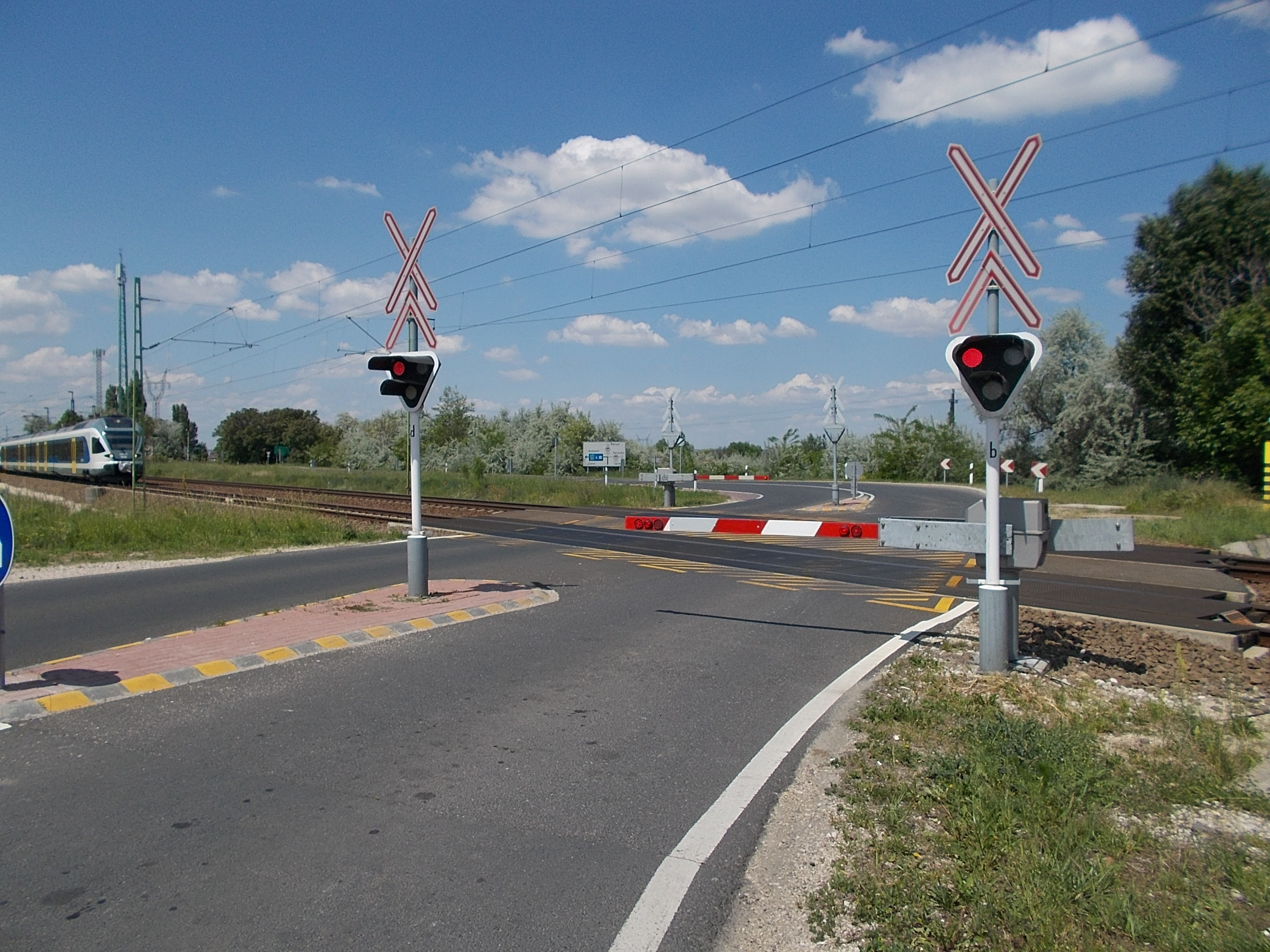 MÁV 5341 train MÁV 415 locomotive, level crossing, Road 6213. - between Pákozd and Dinnyés, Fejér County, Hungary.